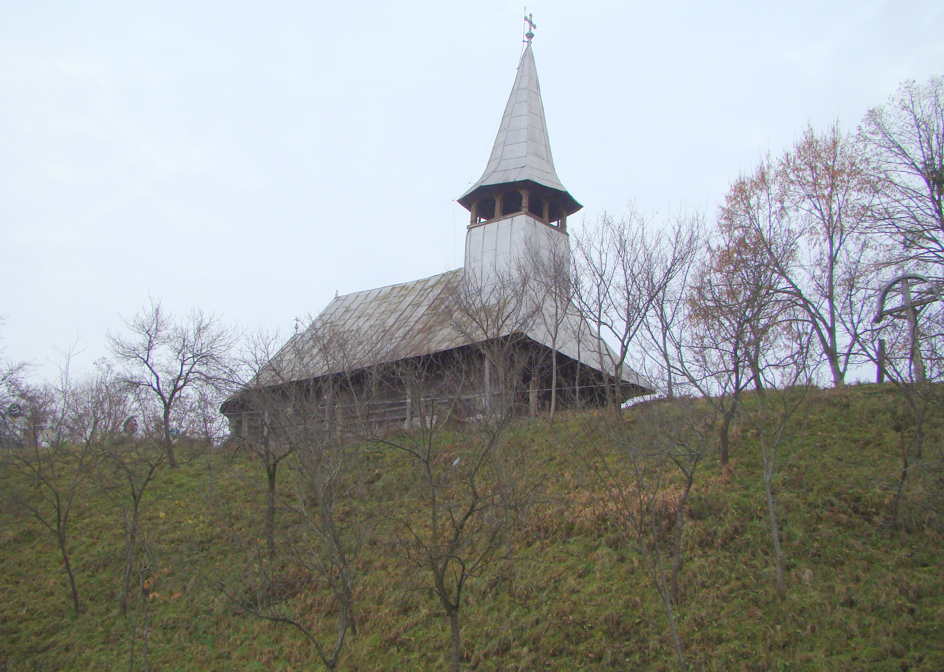 Wooden church in Lugașu de Sus, Bihor county, Romania